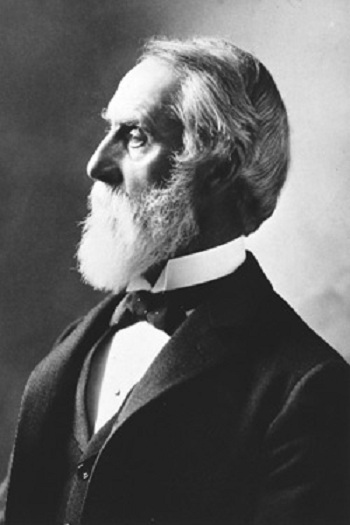 Charles Reed Bishop (1822-1915).